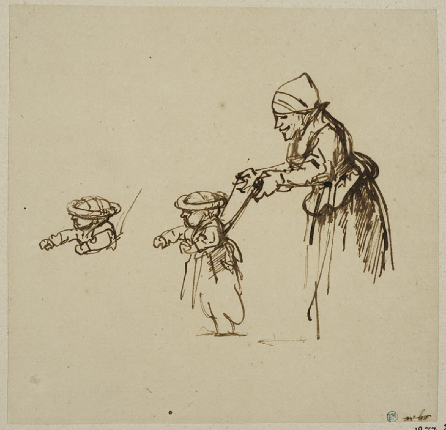 Sheet of Studies, with a Woman Teaching a Child to Walk